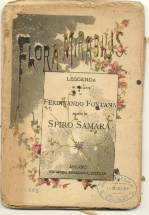 Title Page of the Vocal Score of Flora Mirabilis by Spyros Samaras, 1887